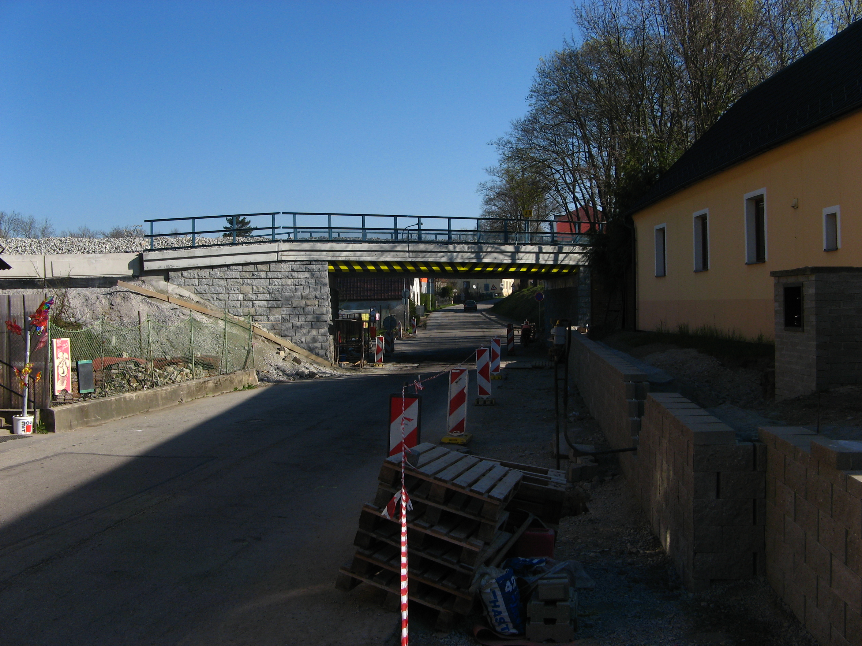 New railway bridge across a road in Boršov nad Vltavou (Czech Republic), built in 2018